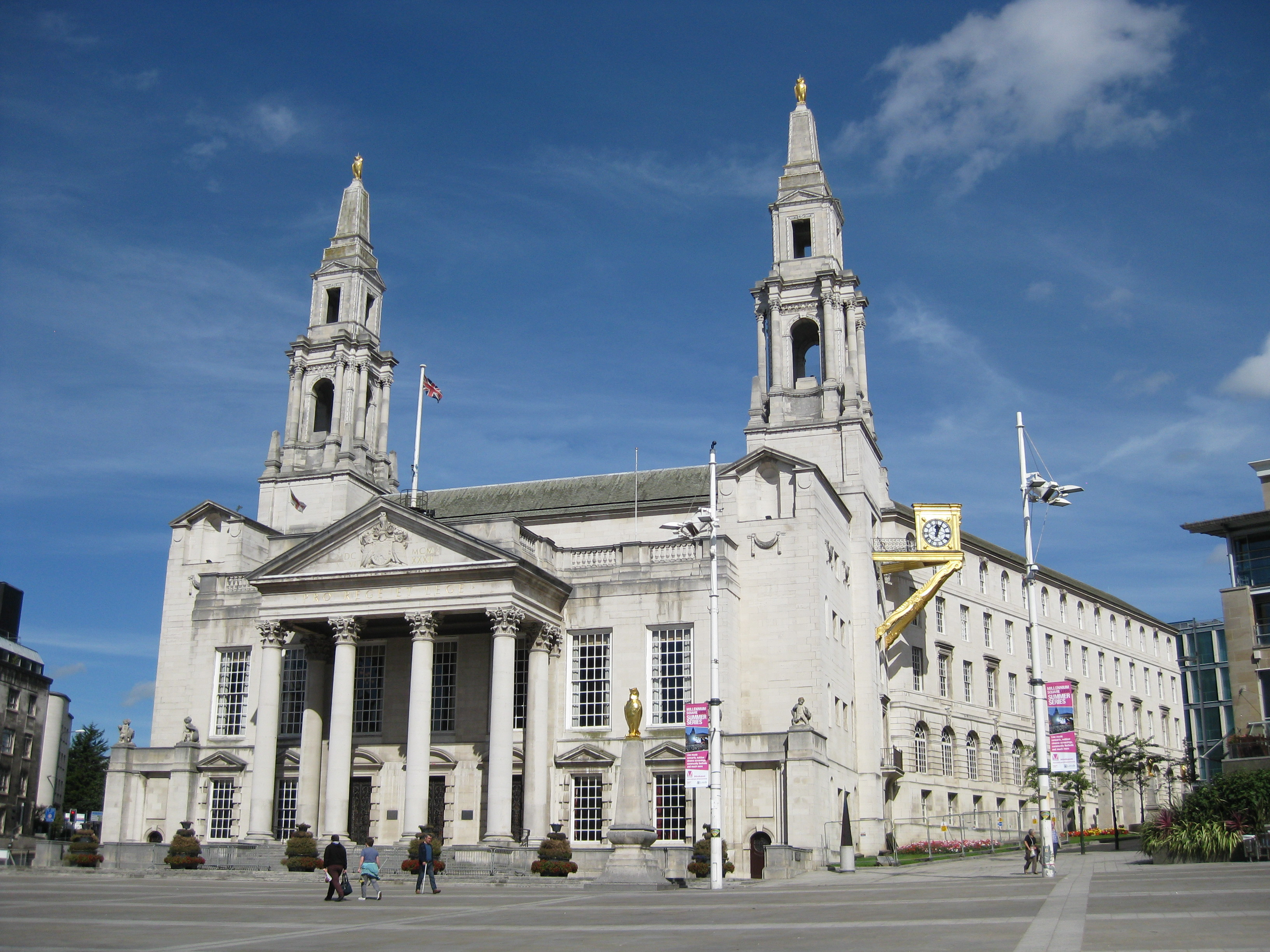 Leeds Civic Hall, three-quarter view.